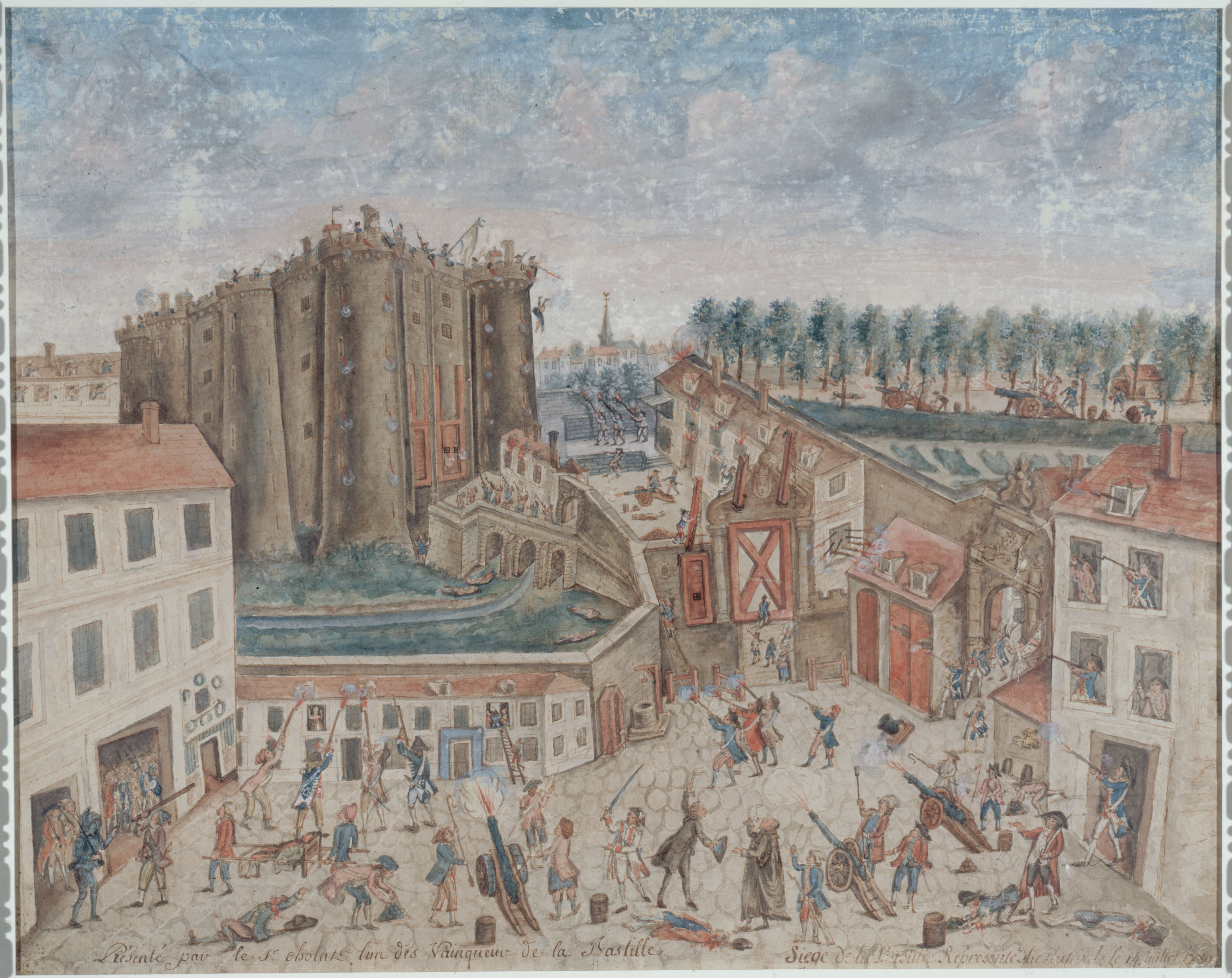 The besieging of the Bastille, by Claude Cholat, an eye witness